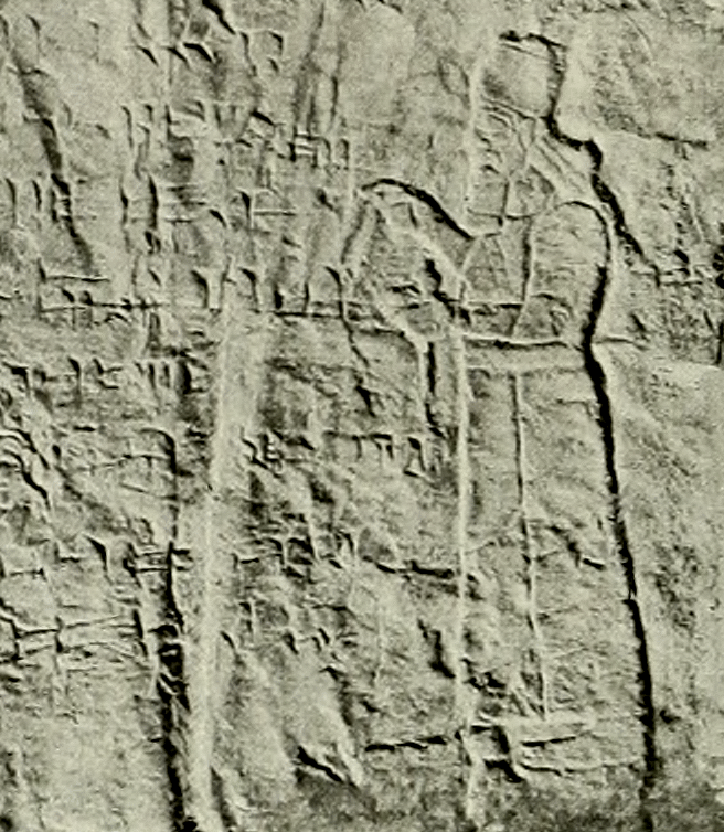 Part of a rock relief depicting Tiglath-Pileser I (c. 1114 -1079 BC). The cuneiform text left of the king (not entirely in this image) identify him as "Tukultī-apil-Ešarra king of Ashur, son of Ashur-resh-ishi king of Ashur, son of Mutakkil-Nusku king of Ashur". The inscription was discovered inside a natural cave at the spot called Birkleyn or "The Tigris Tunnel" in 1862. source: British Museum [1]